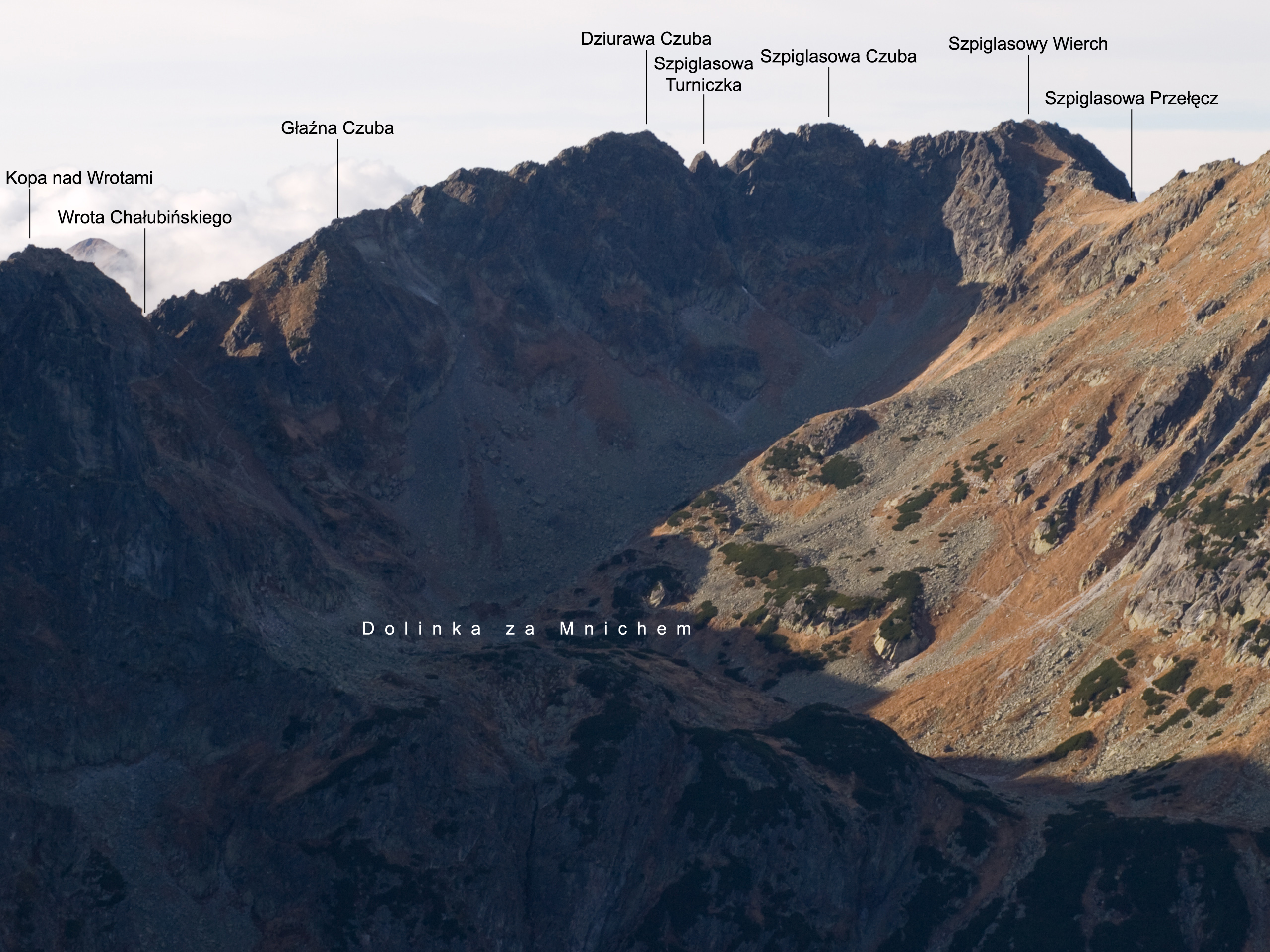 Szpiglasowa Grań – view from Żabi Szczyt Niżni (Polish captions).